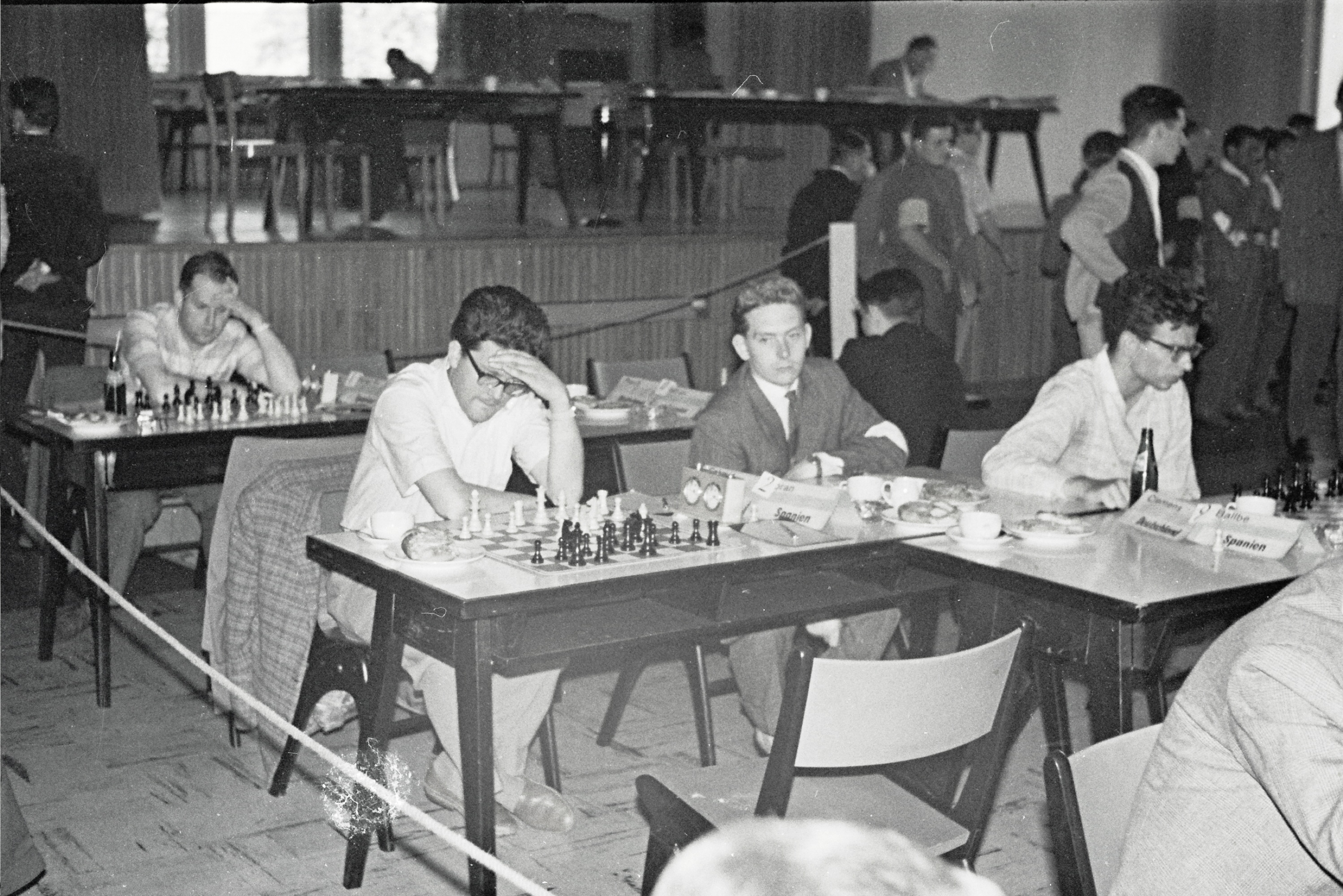 Lothar Schmid and Christian Clemens, European Chess Team Championship 1961 at Oberhausen, Photographer Gerhard Hund.